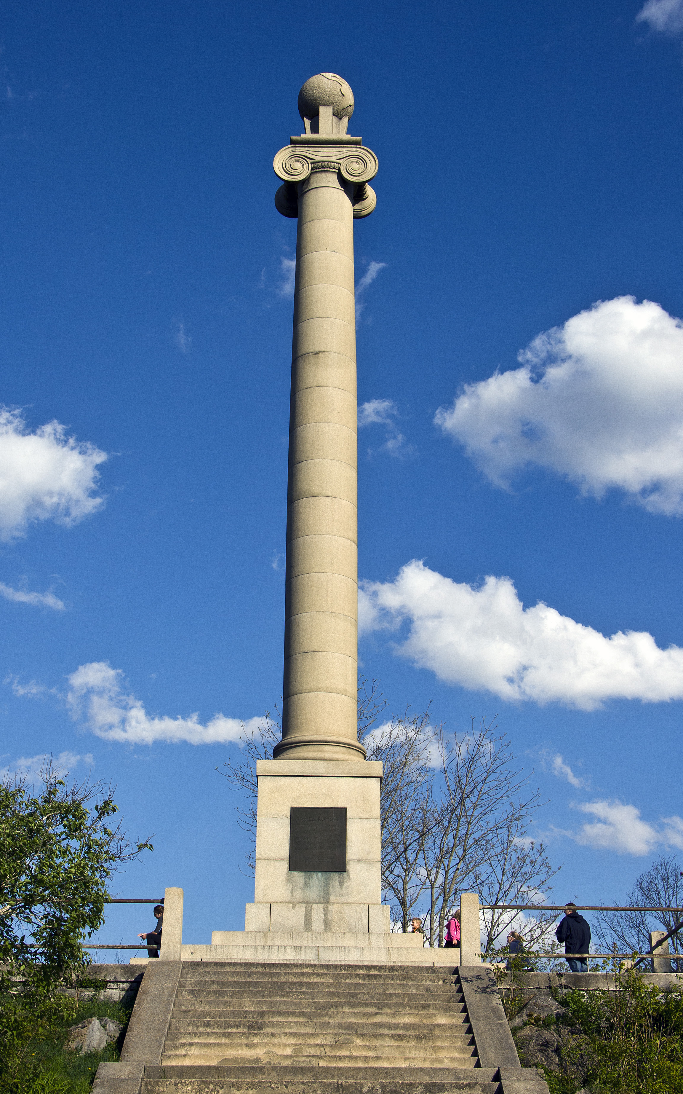 James Rumsey Monument, Shepherdstown, West Virginia, USA. Marks the site of a demonstration of Rumsey's steamboat on the Potomac River on December 3, 1787.